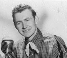 Hank Cochran depicted on a publicity picture for Ekko Records